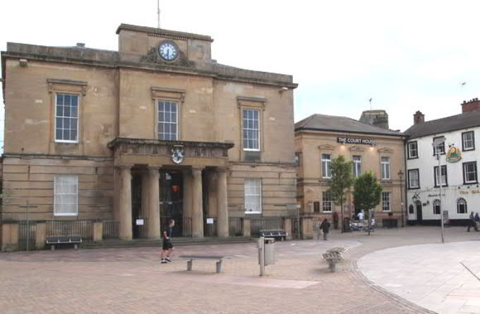 Mansfield Old Town Hall and Old Court building at the head of Mansfield Market Place. The old town hall is used for council-related purposes, and the old court is a pub as of 2014